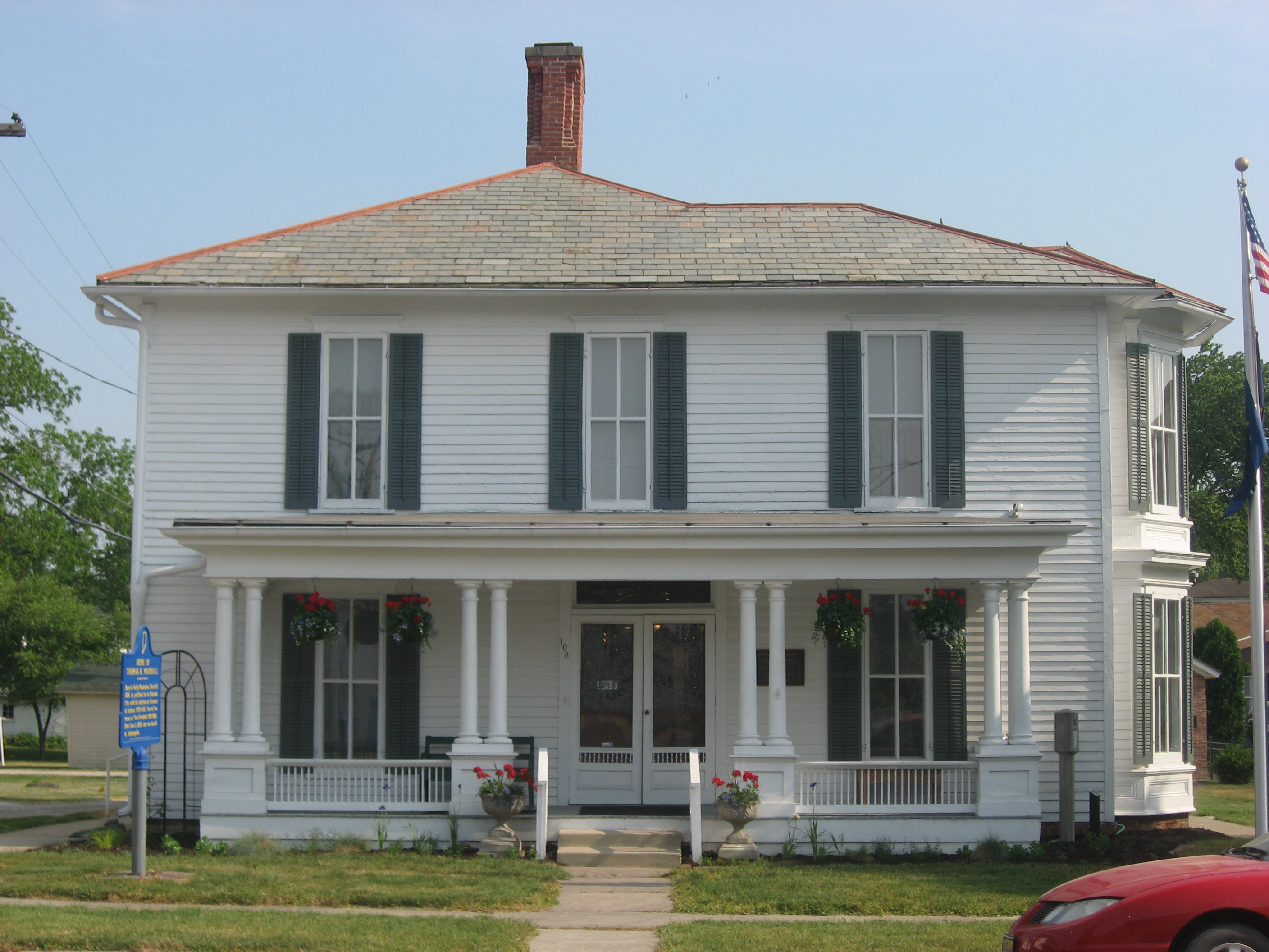 Front of the Thomas R. Marshall House, located at 108 W. Jefferson Street in Columbia City, Indiana, United States. Built in 1874, it is listed on the National Register of Historic Places.